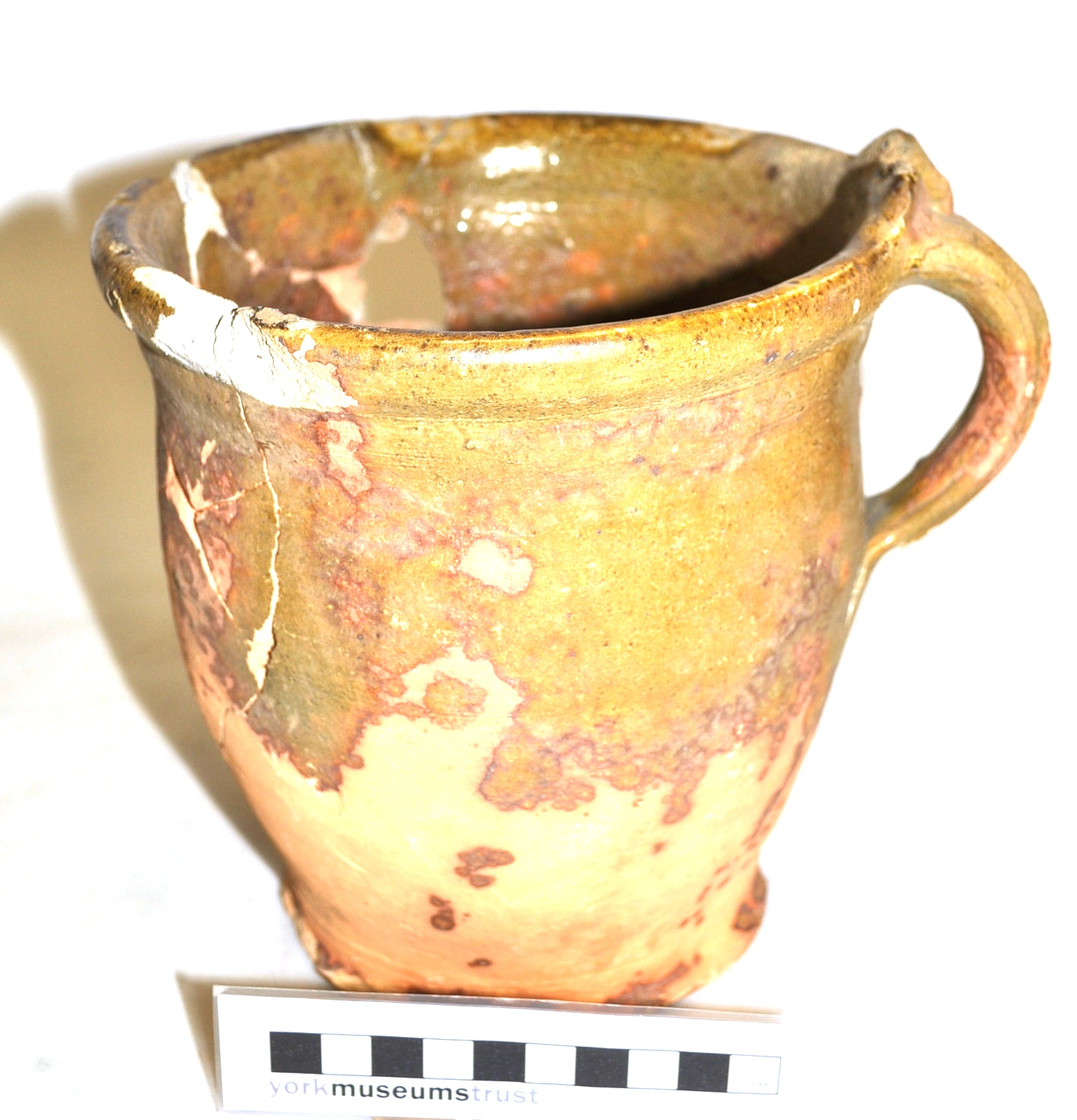 Vessel with two handles and patchy light green glaze on top two thirds. Pot 'C' of the three vessels containing the Middleham hoard.